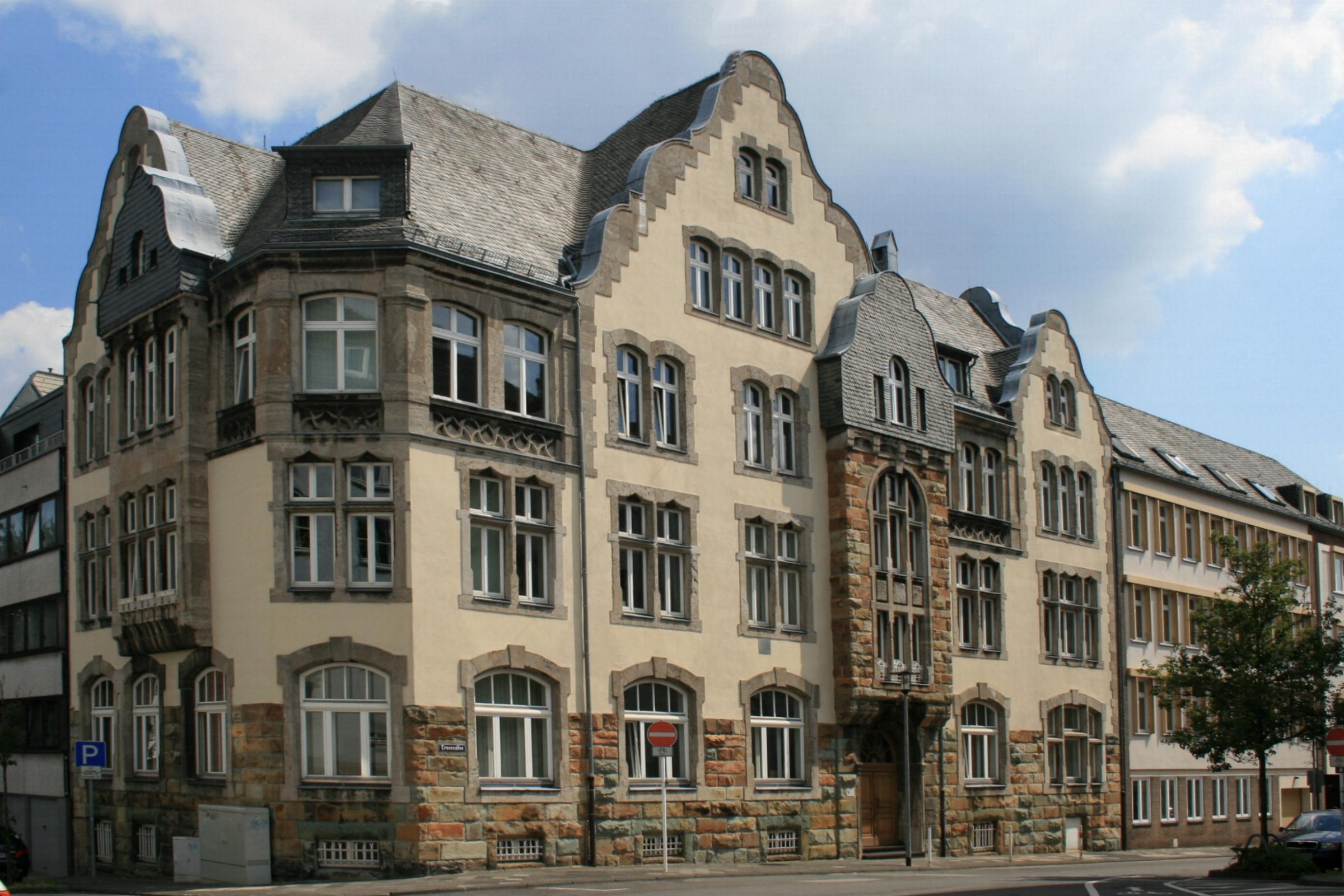 Cultural heritage monument No. C 002 in Mönchengladbach